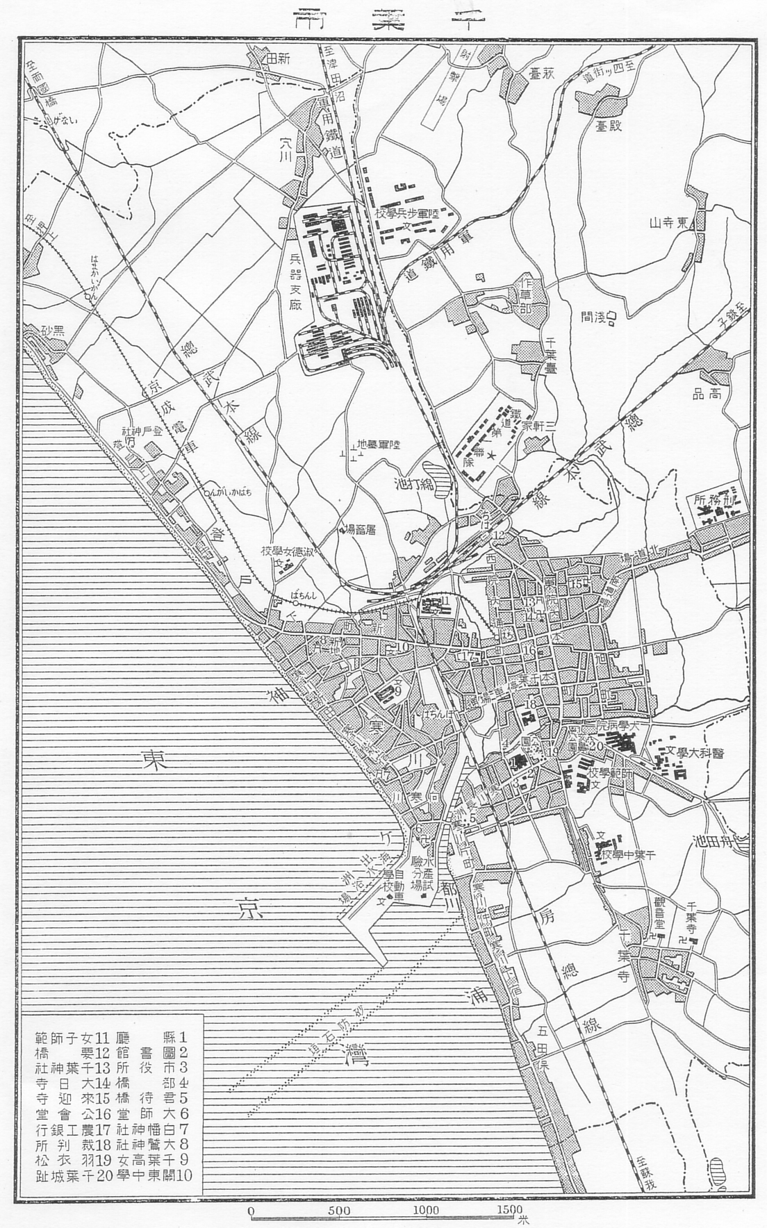 Chiba map circa 1930